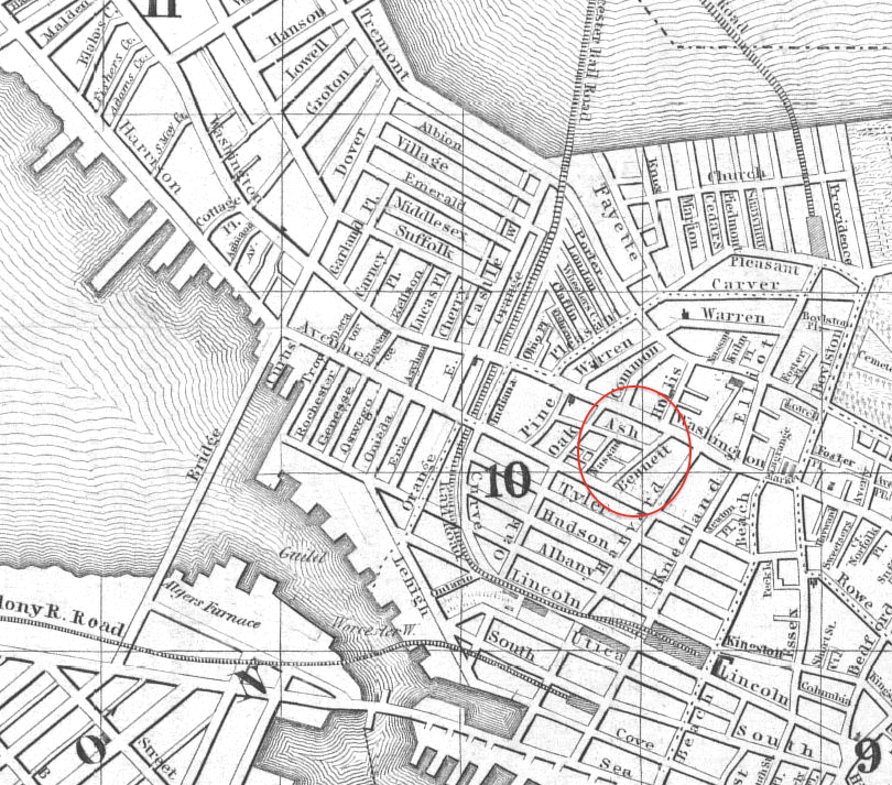 Detail of 1850 map of Boston, showing part of the South End and vicinity. The Boston Medical Dispensary was located at the corner of Ash St. and Bennett St.